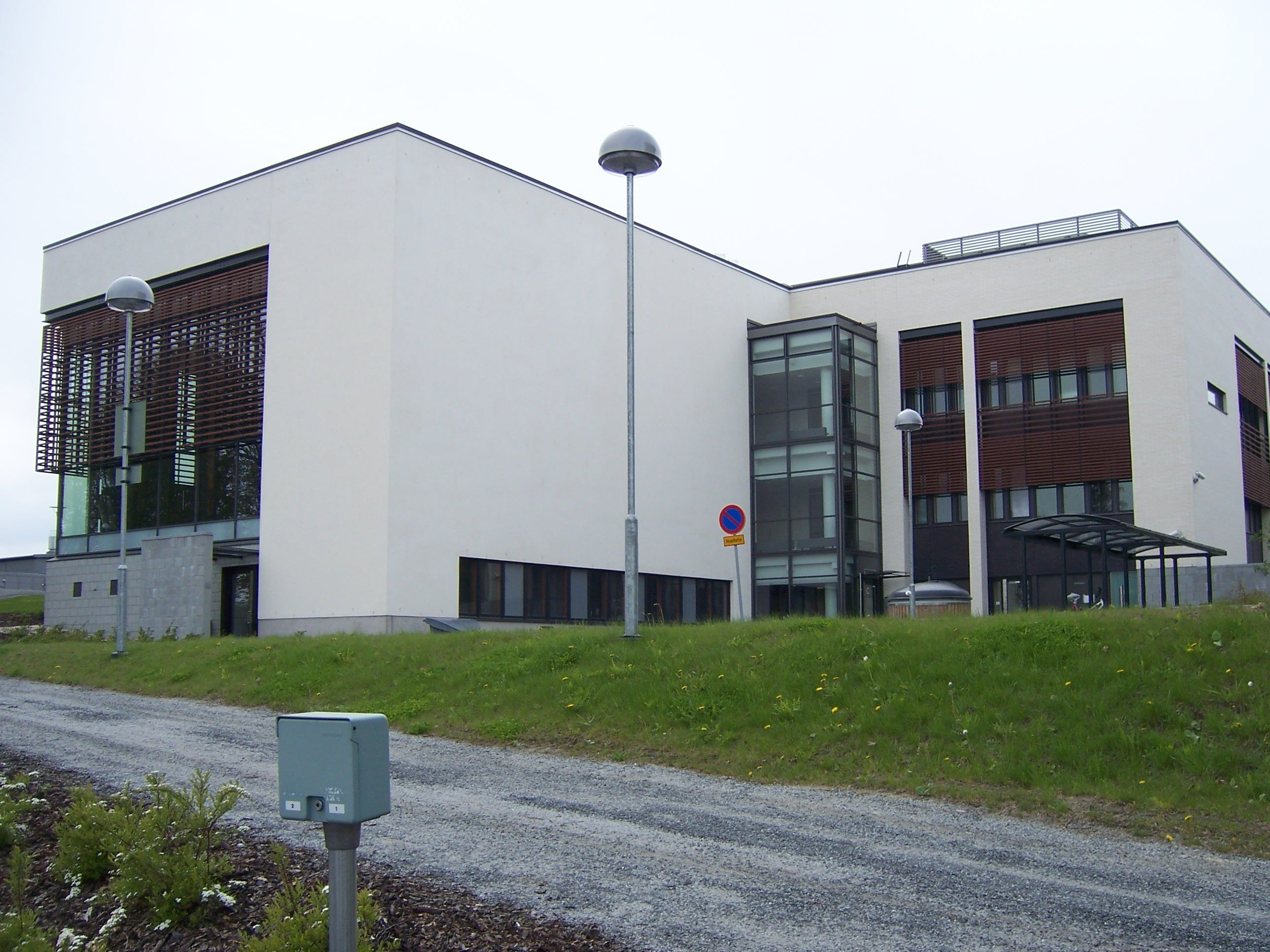 Ylöjärvi City Hall in Ylöjärvi, Finland Template:Fı